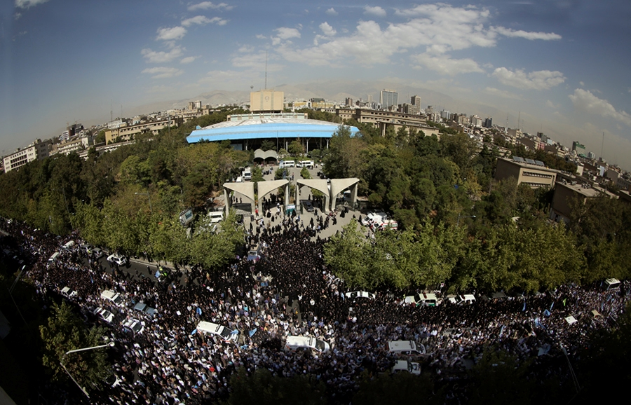 Corteges of Mina stampede deceased in front of University of Tehran.